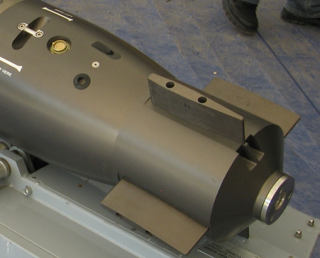 Tail section of MU90 with pomp jet.